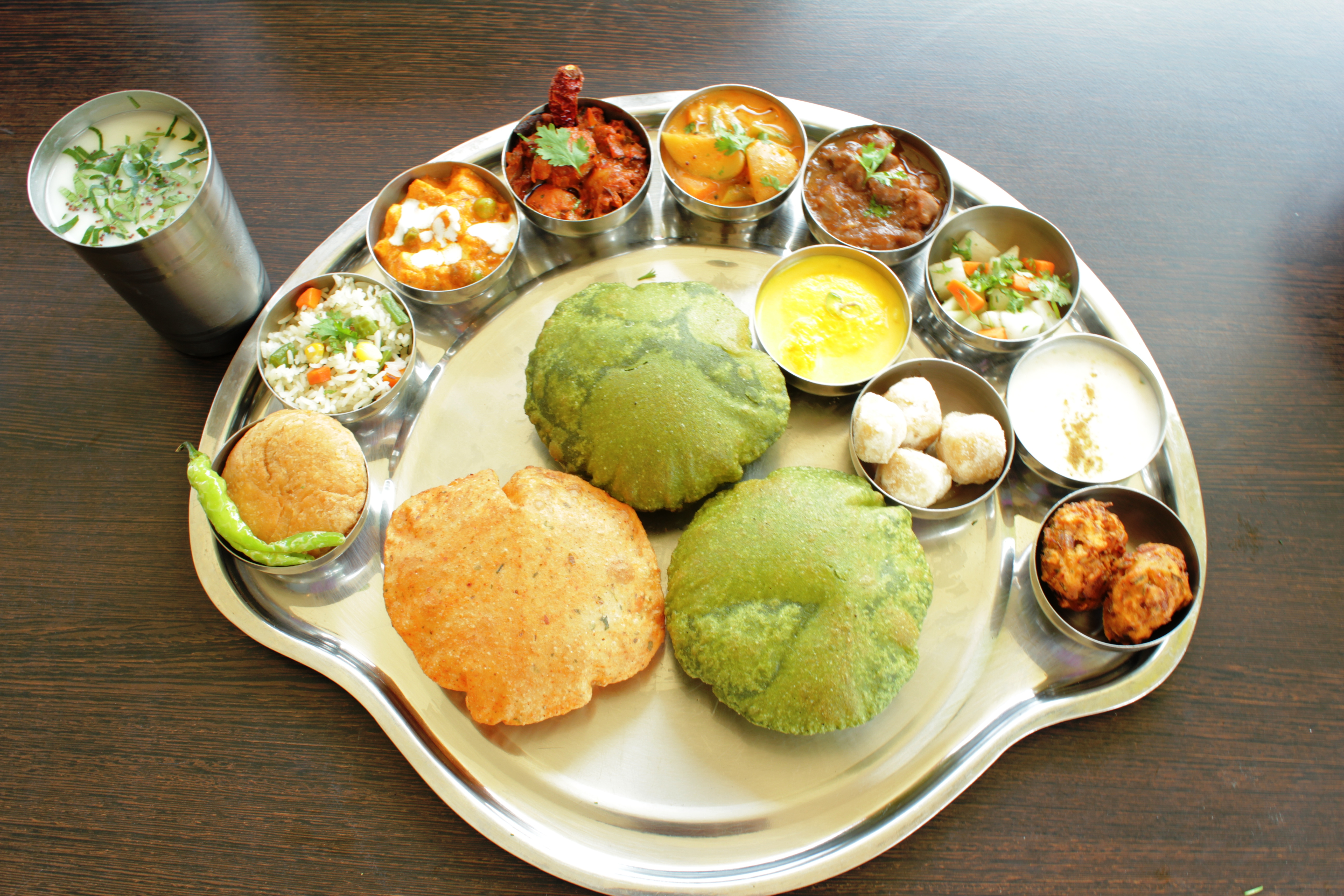 This is traditional Navratra Indian food, this is very famous in indian culture.